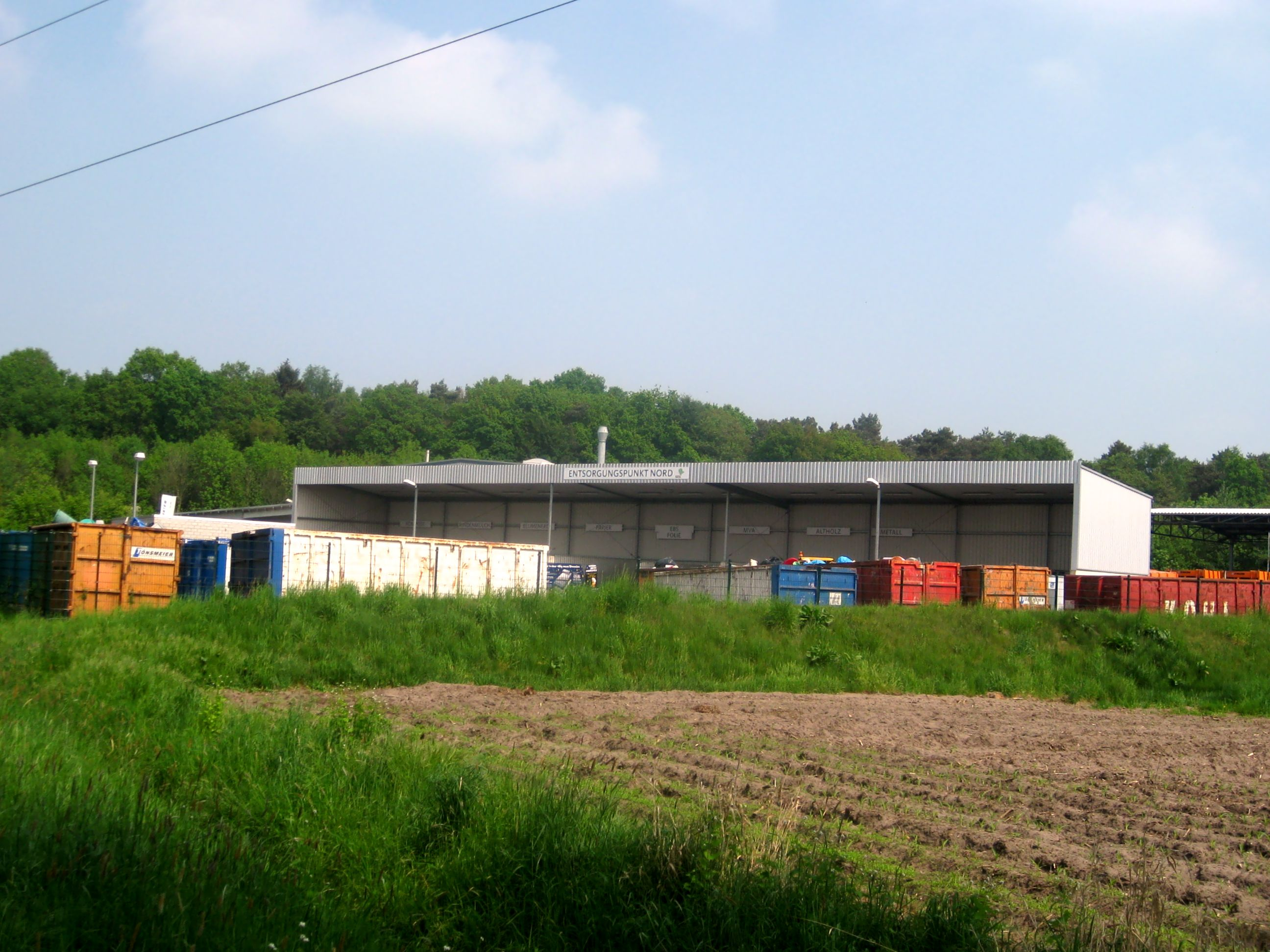 Halle (Westf.) - Waste disposal station north